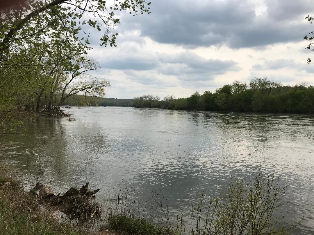 This is the view of the Potomac River from the picnic area at Swains Lock in the C&O National Historical Park in Travilah/Potomac, Maryland.